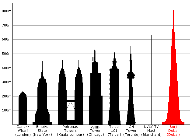 Proposed height of the Burj Dubai compared to some other well known tall structures.